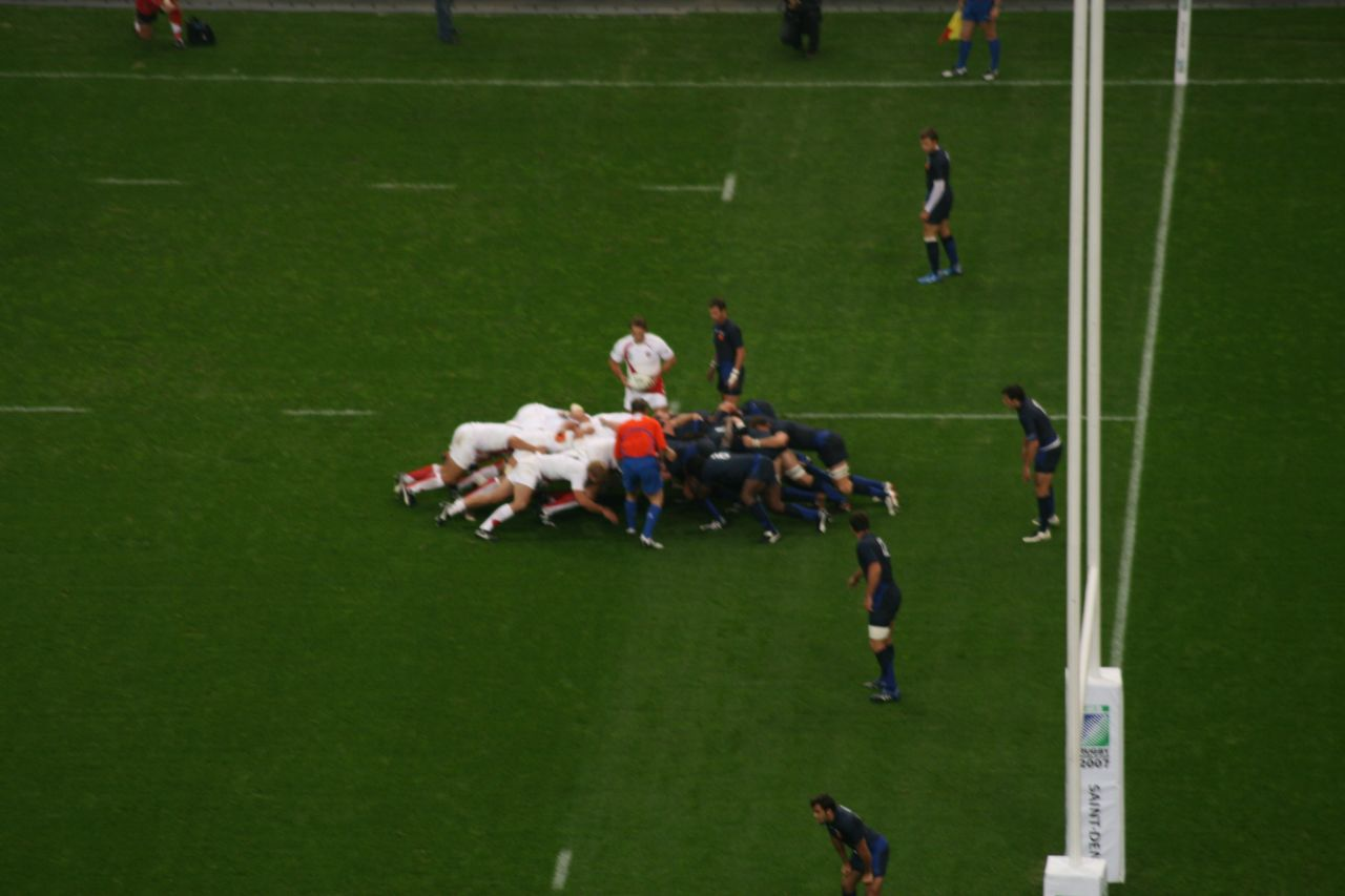 Heeeeeaaave! - the forwards in action France vs England Semi Final Rugby World Cup 2007